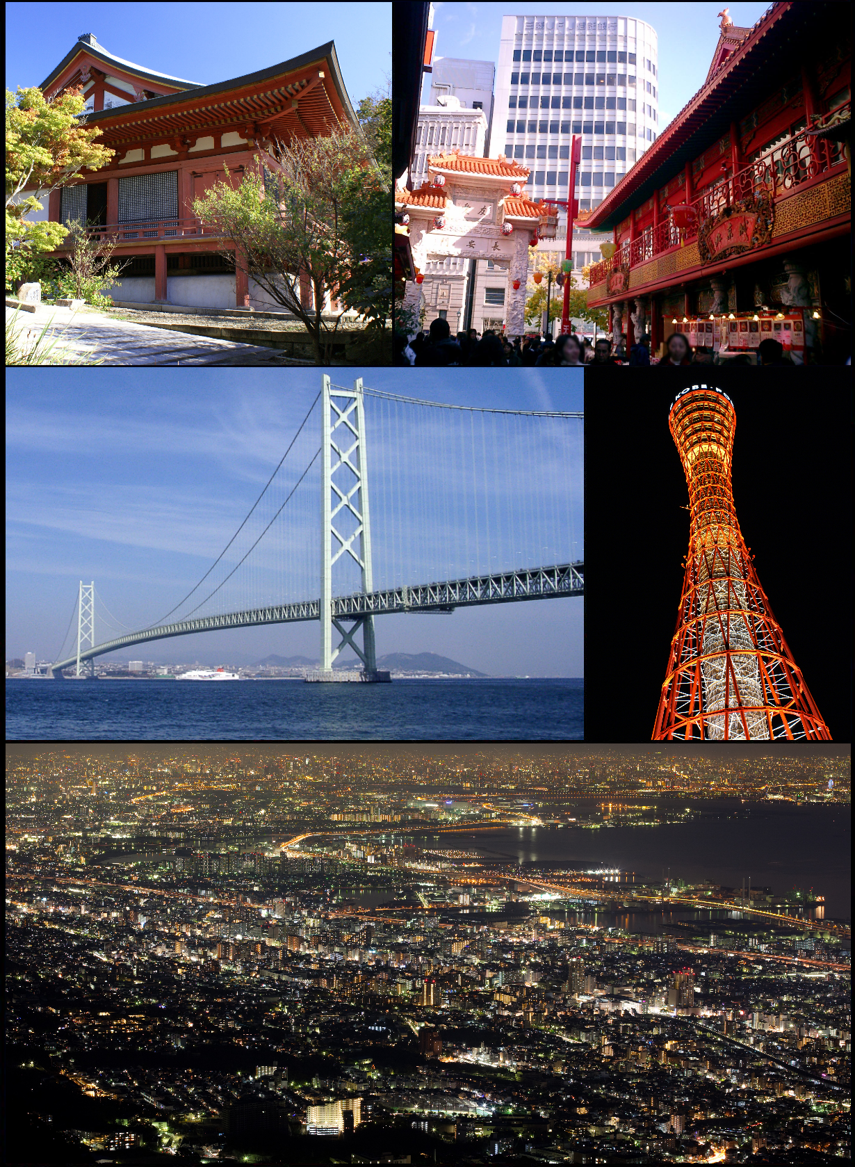 From top left: Main Hall, Taisan-ji, Kobe Chinatown, Akashi Kaikyō Bridge, Kobe Port Tower, Kobe Cityscape.